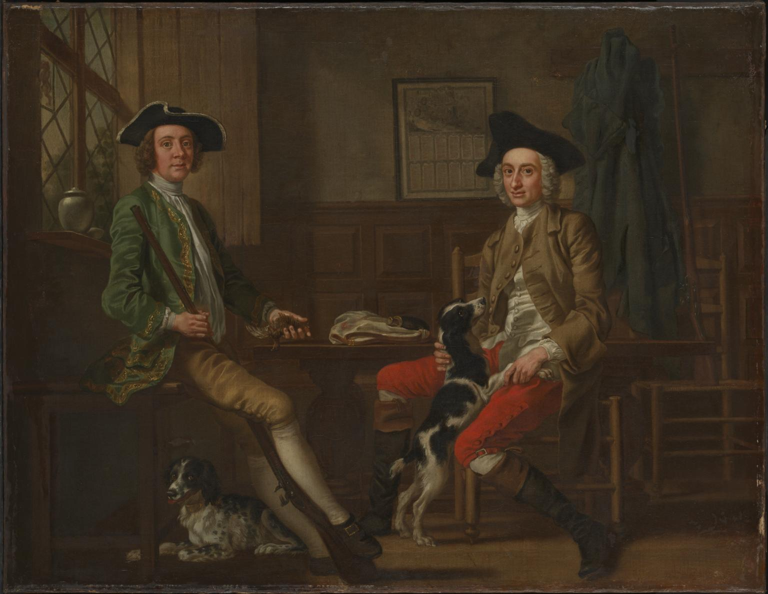 Thomas Nuthall and his Friend Hambleton Custance c.1748 by Francis Hayman. Oil paint on canvas. Bequeathed by Ernest E. Cook through the Art Fund 1955. Note: Thomas Nuthall (right), with his dog, and his Friend Hambleton Custance (left), holding a bird, after a day's shooting. Catalog description: This ‘conversation piece’ portrait shows two wealthy Norfolk squires resting after a day’s shooting. On the left is Hambleton Custance of Weston, who was about to marry a local heiress; his festive clothes and the bird he holds in his hand pose may refer to this. On the right is Thomas Nuthall, solicitor to the East India Company. He might be shown here as the unsuccessful suitor comforted by his dog; he remained single until he married his friend’s widow in 1757.